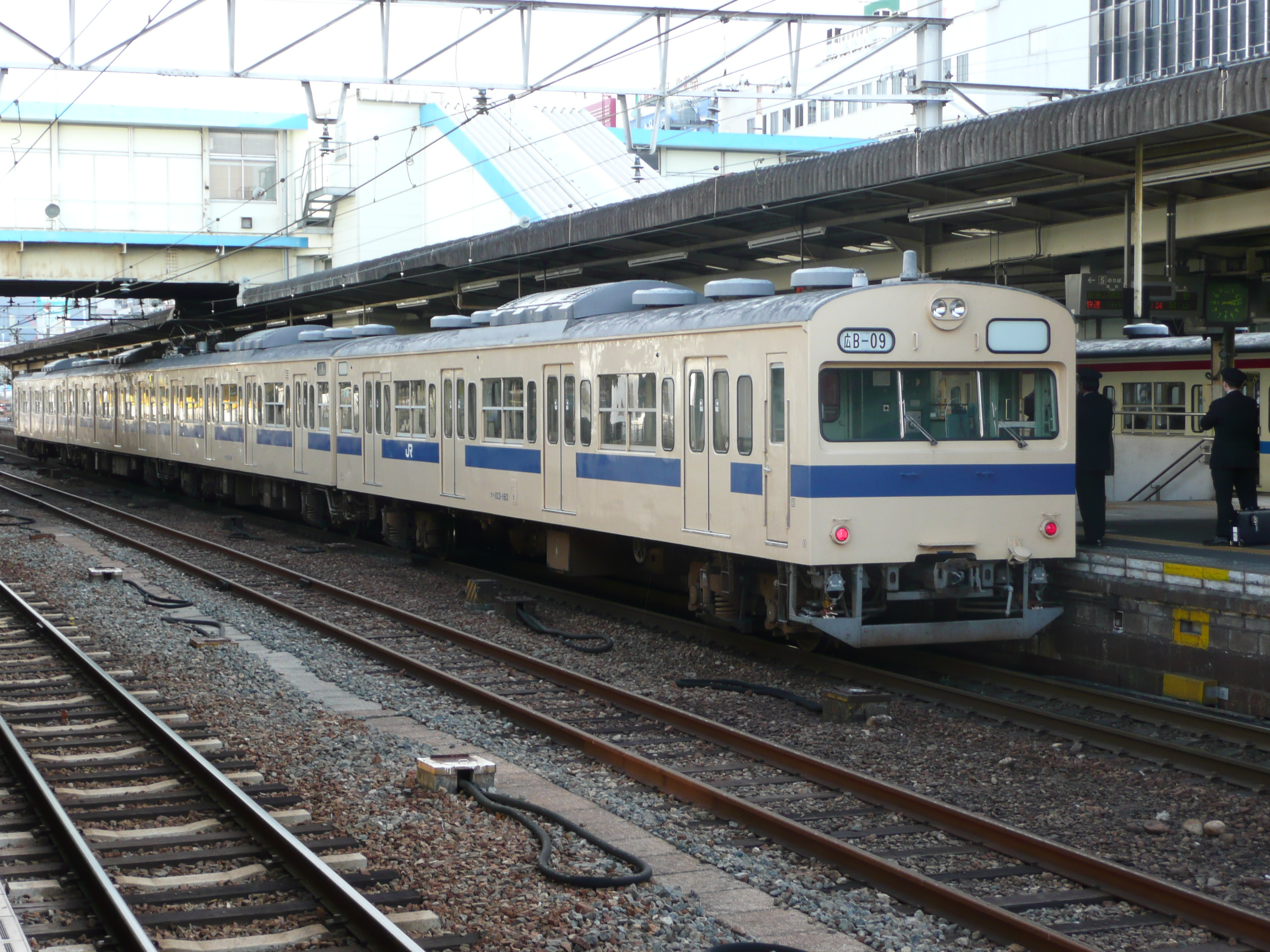 広島駅構内「在来線」